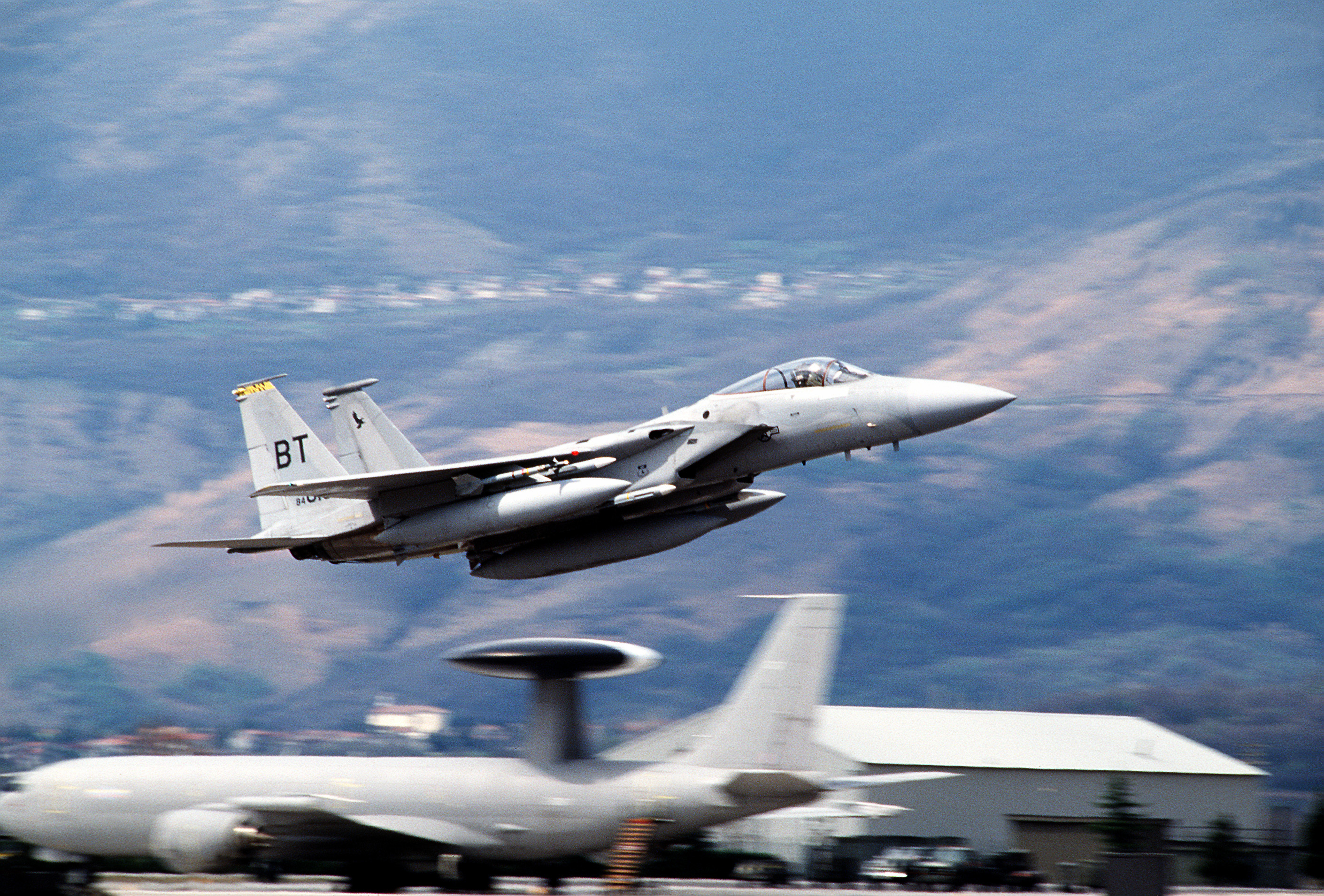 A 53rd Fighter Squadron F-15C Eagle aircraft takes off on a mission during Operation Deny Flight, the enforcement of the United Nations-sanctioned no-fly zone over Bosnia and Herzegovina.